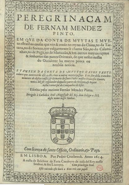 Title page of Mendes Pinto, Peregrinacam (1614)